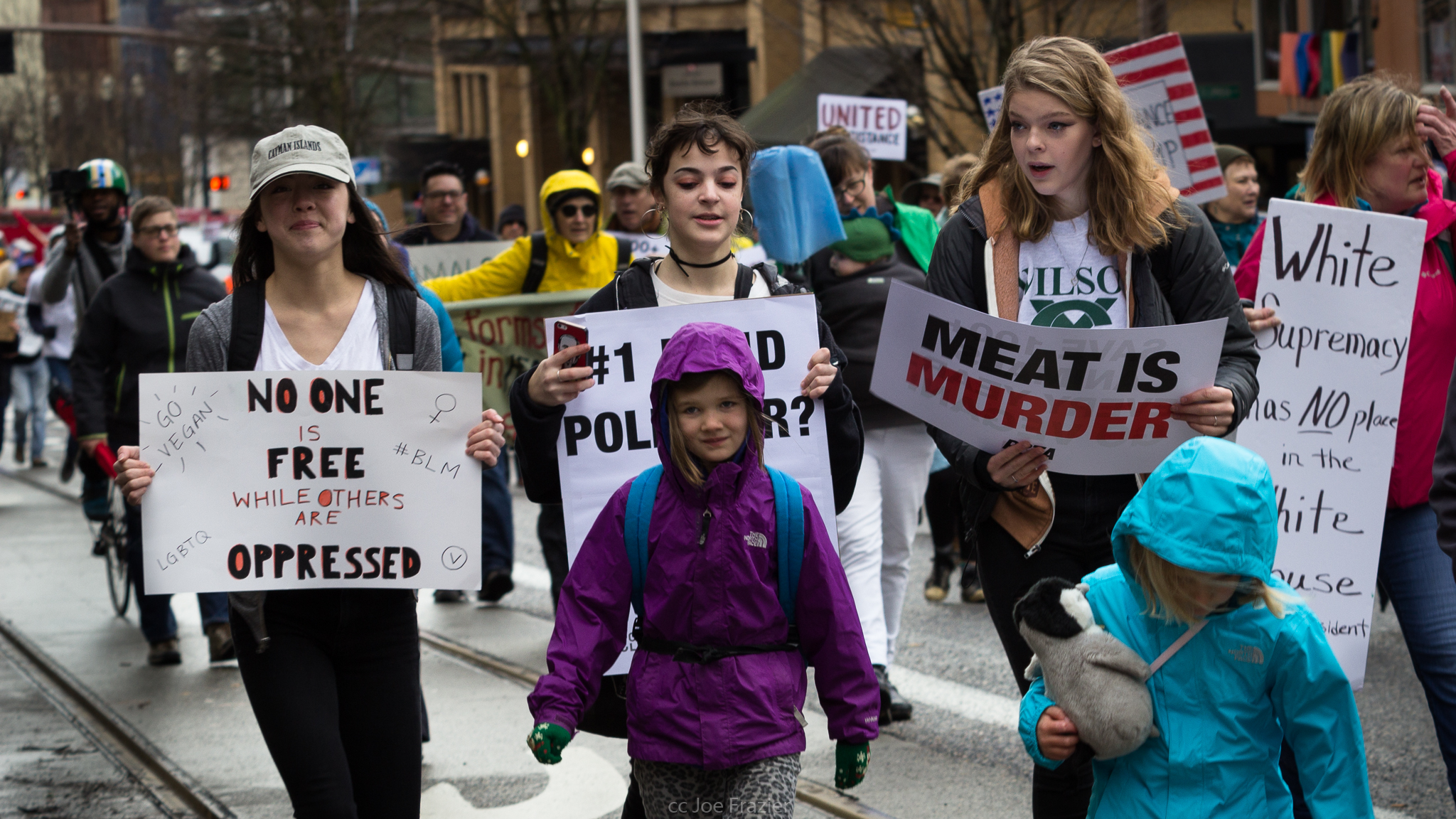 WeThePeople-4644